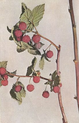 Burbank's thornless raspberry